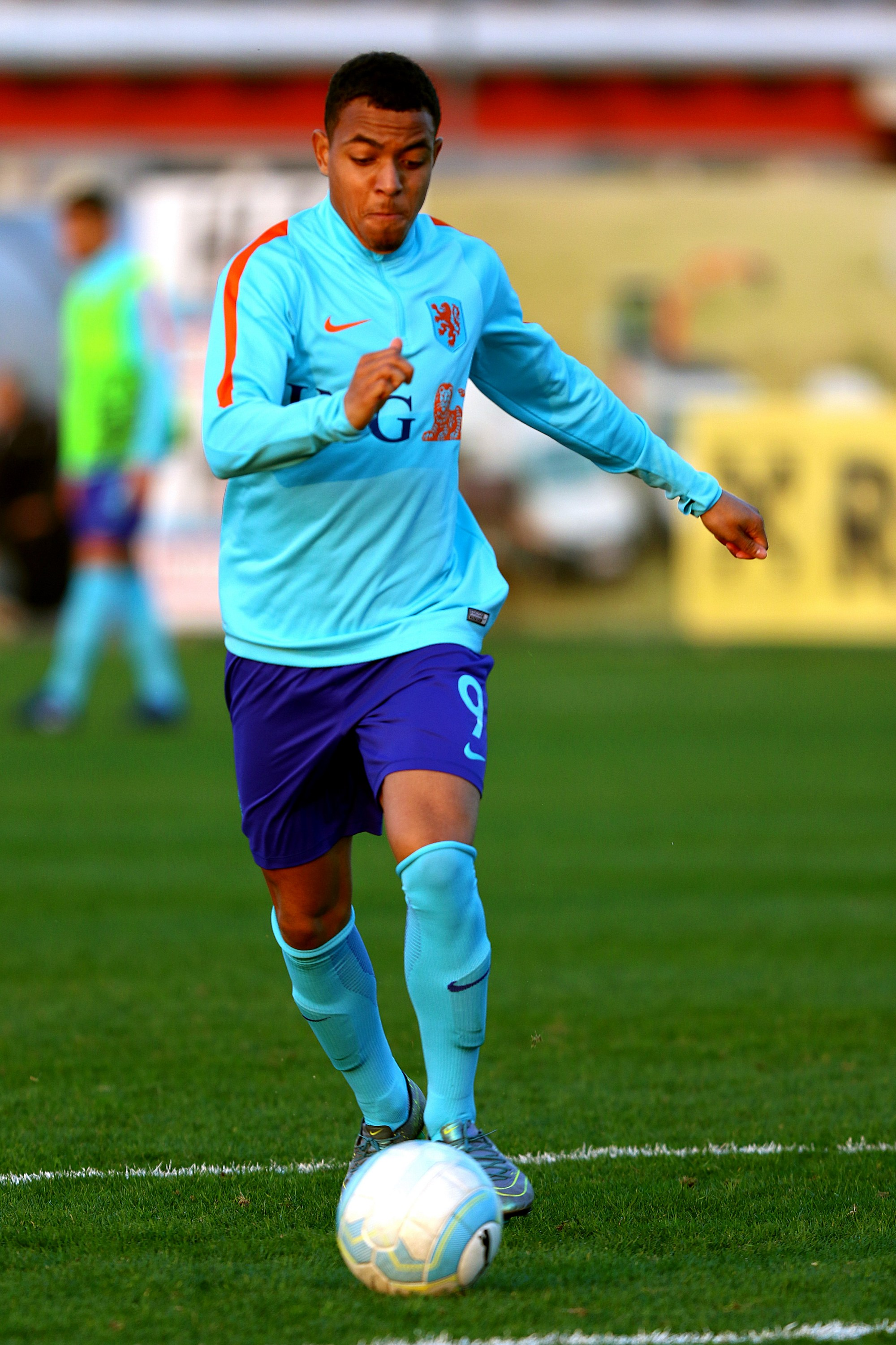 Friendly match Austria national under-18 football team (red shirts) vs. Netherlands national under-18 football team (blue shirts) 1–1 (1–0) on 2017-03-23 in Eggendorf – The photo shows Donyell Malen (FC Arsenal U18).